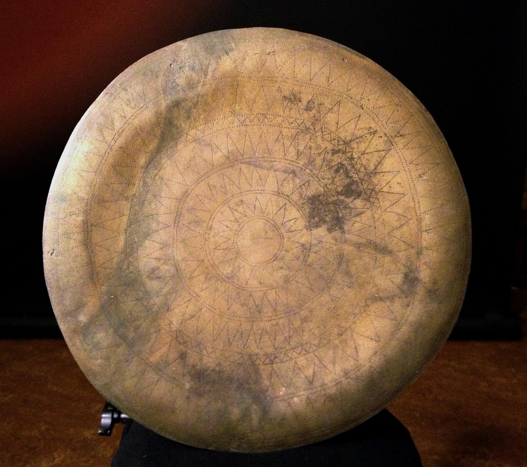 Sun disc of the Balkåkra cult object. Accession number 1451, National Historical museum, Stockholm.